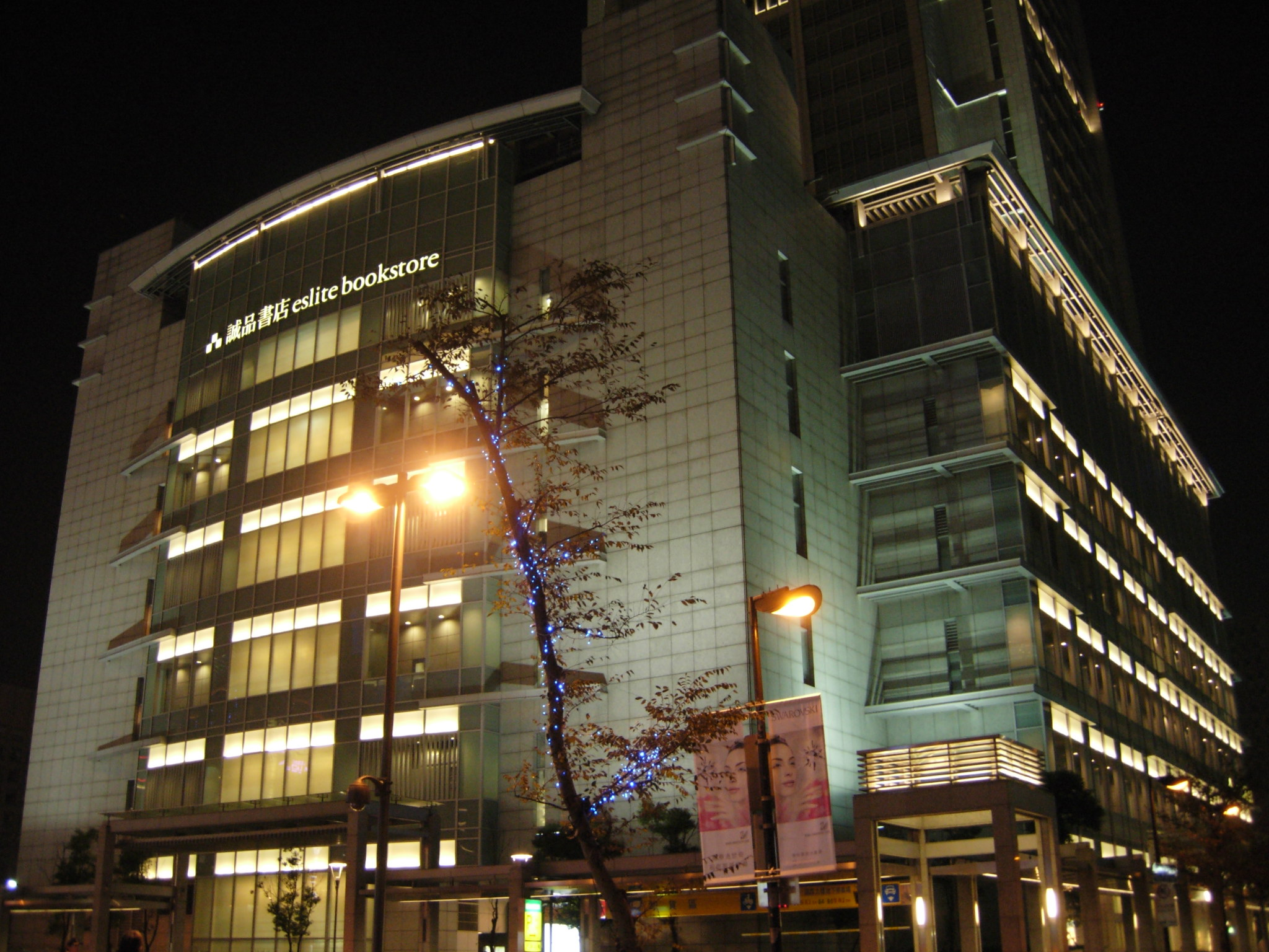 Xinyi Store, Eslite Bookstore. Bân-lâm-gú: Sîng-phín Tsu-tiàm Sìn-gī-tiàm(Kî-lām-tiàm). 誠品書店信義店（旗艦店）。